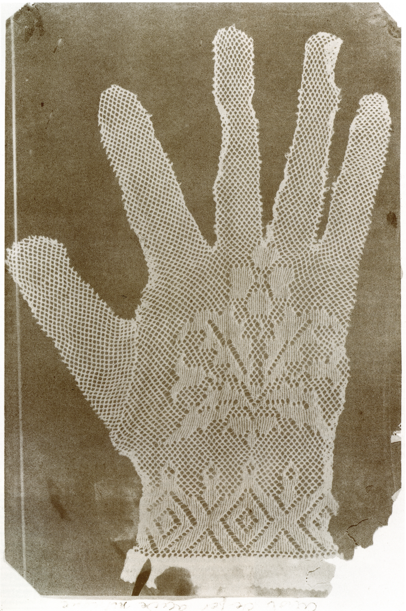 Hippolyte Bayard (1801–1887): Lace glove, c. 1840